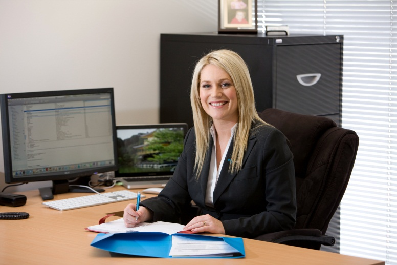 Tammy May sitting at a desk in her office. She is wearing a black blazer and a white collared shirt. Her right hand is holding a pen.